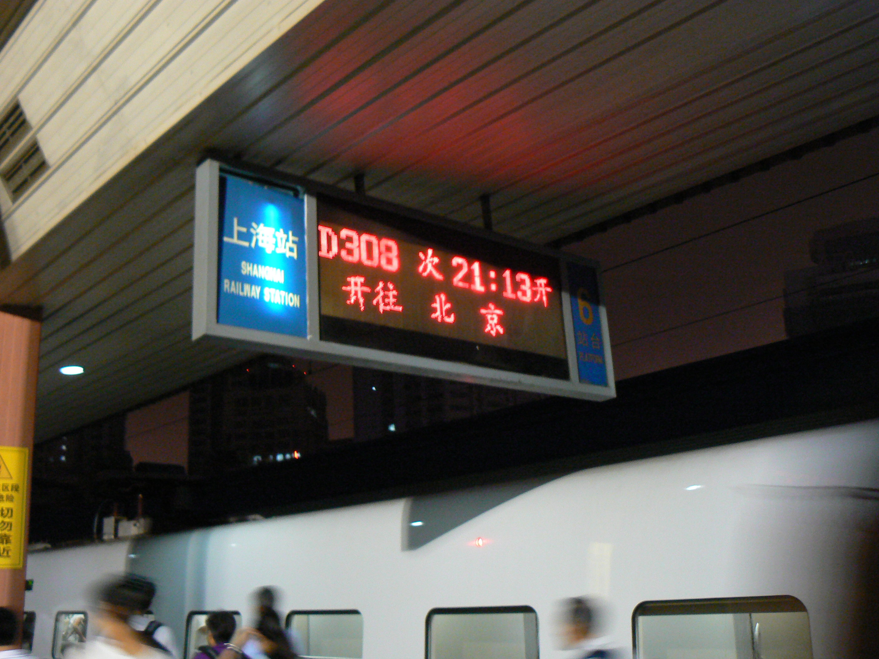 About to board the train - Shanghai